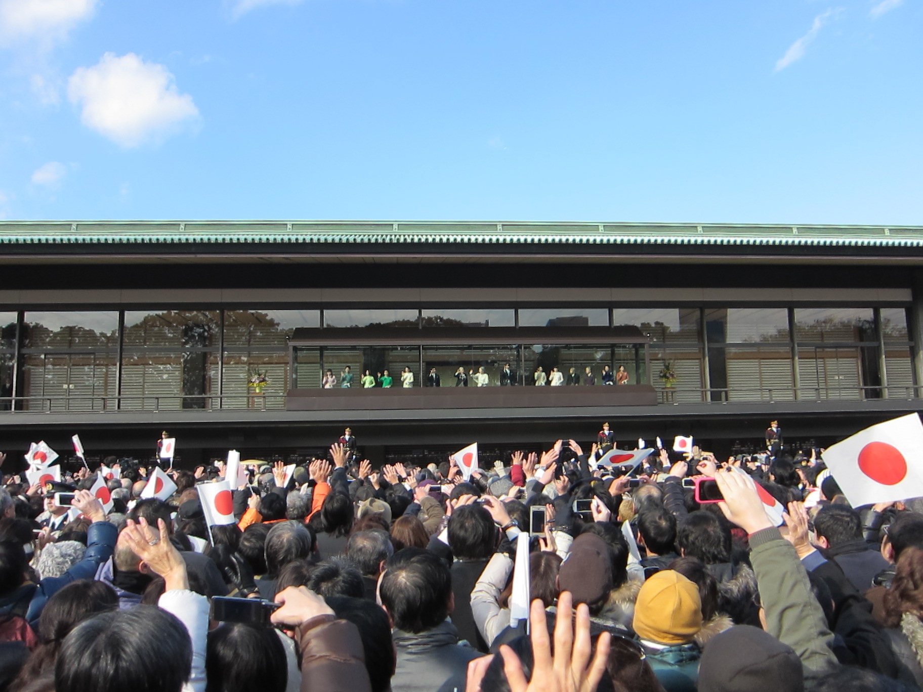 The Imperial Family of Japan and Visit of the General Public to the Palace for the New Year Greeting(2012.1.2 Tokyo)